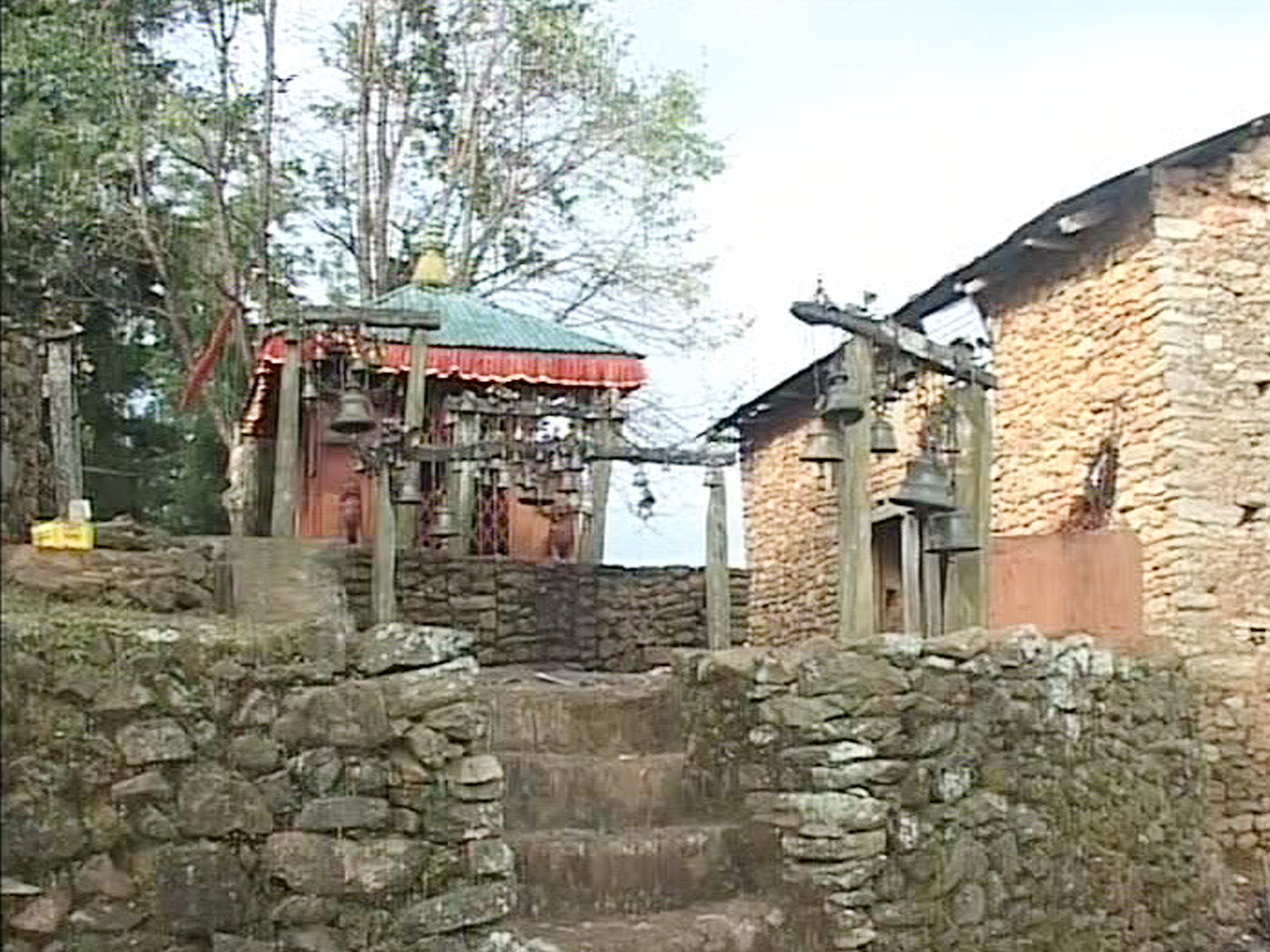 Khada Devi Temple situated in Ramechhap District.